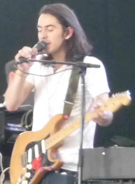 Dhani Harrison with thenewno2 at the 2009 Coachella Festival.